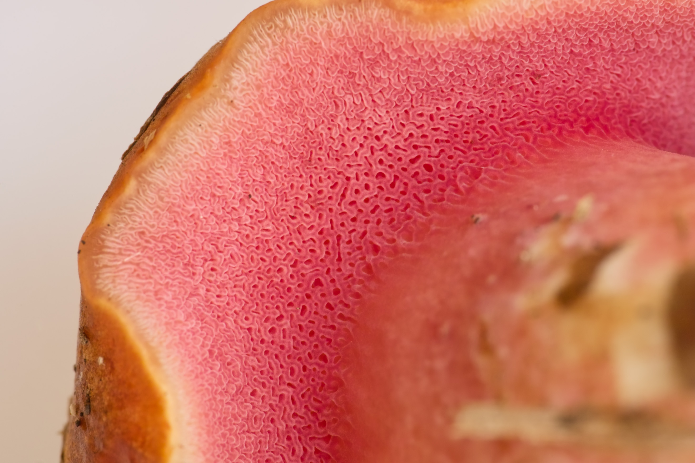 Rubinoboletus rubinus